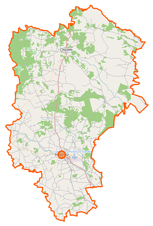 Map of Powiat przasnyski, Poland This map of Powiat przasnyski was created from OpenStreetMap project data, collected by the community. This map may be incomplete, and may contain errors. Don't rely solely on it for navigation. Border coordinates53.375120.6419←↕→21.233852.8534